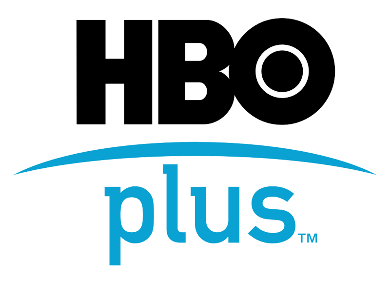 This is the logo of the television channel HBO Plus.